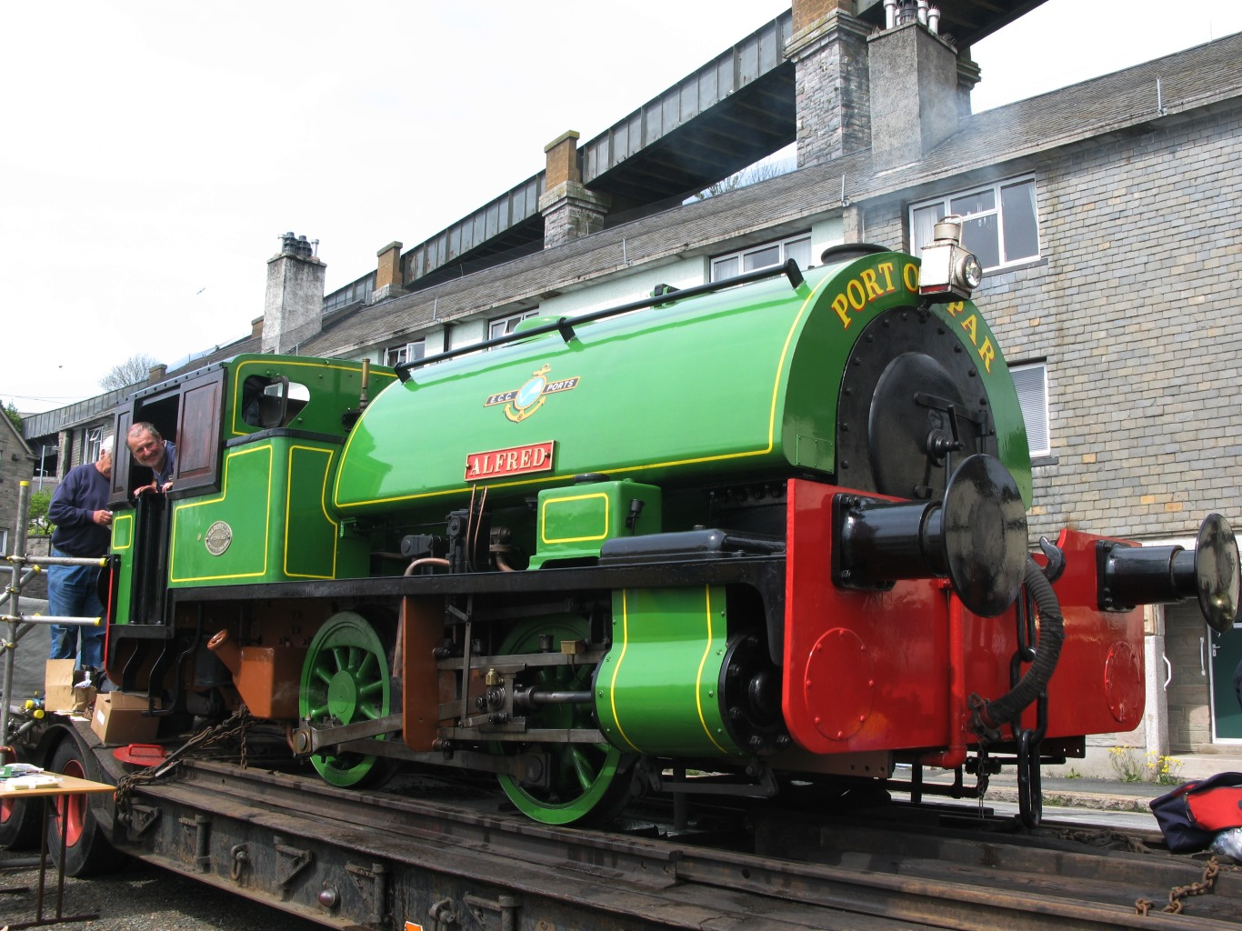 Former Port of Par steam locomotive Alfred, built by W G Bagnall in 1953, on display at Saltash, Cornwall, United Kingdom, as part of the celebrations of the 150th anniversary of the opening of the Royal Albert Bridge which can be seen in the background.